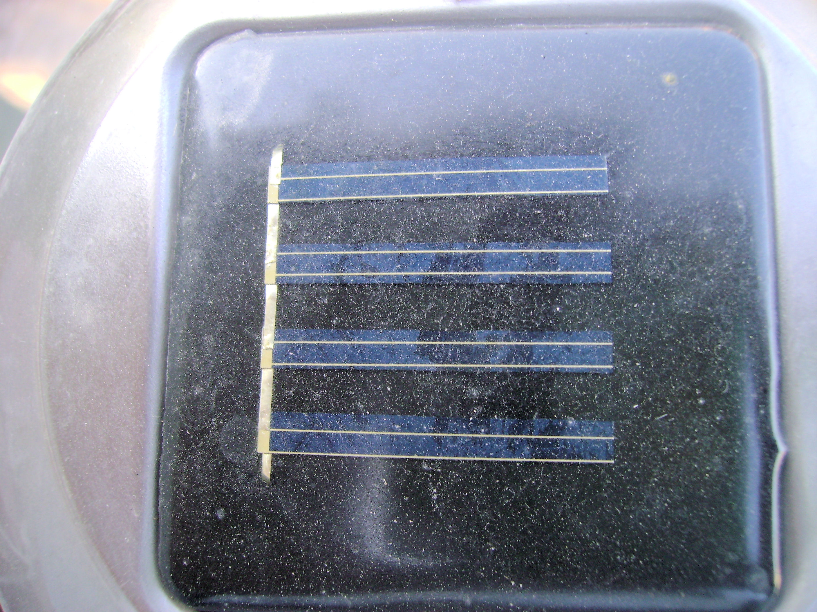 This a polycrystaline solar cell panel on top a solar garden light. Note the four separate cells joined by a metal strips. This generates enough electricity to power the lamp.